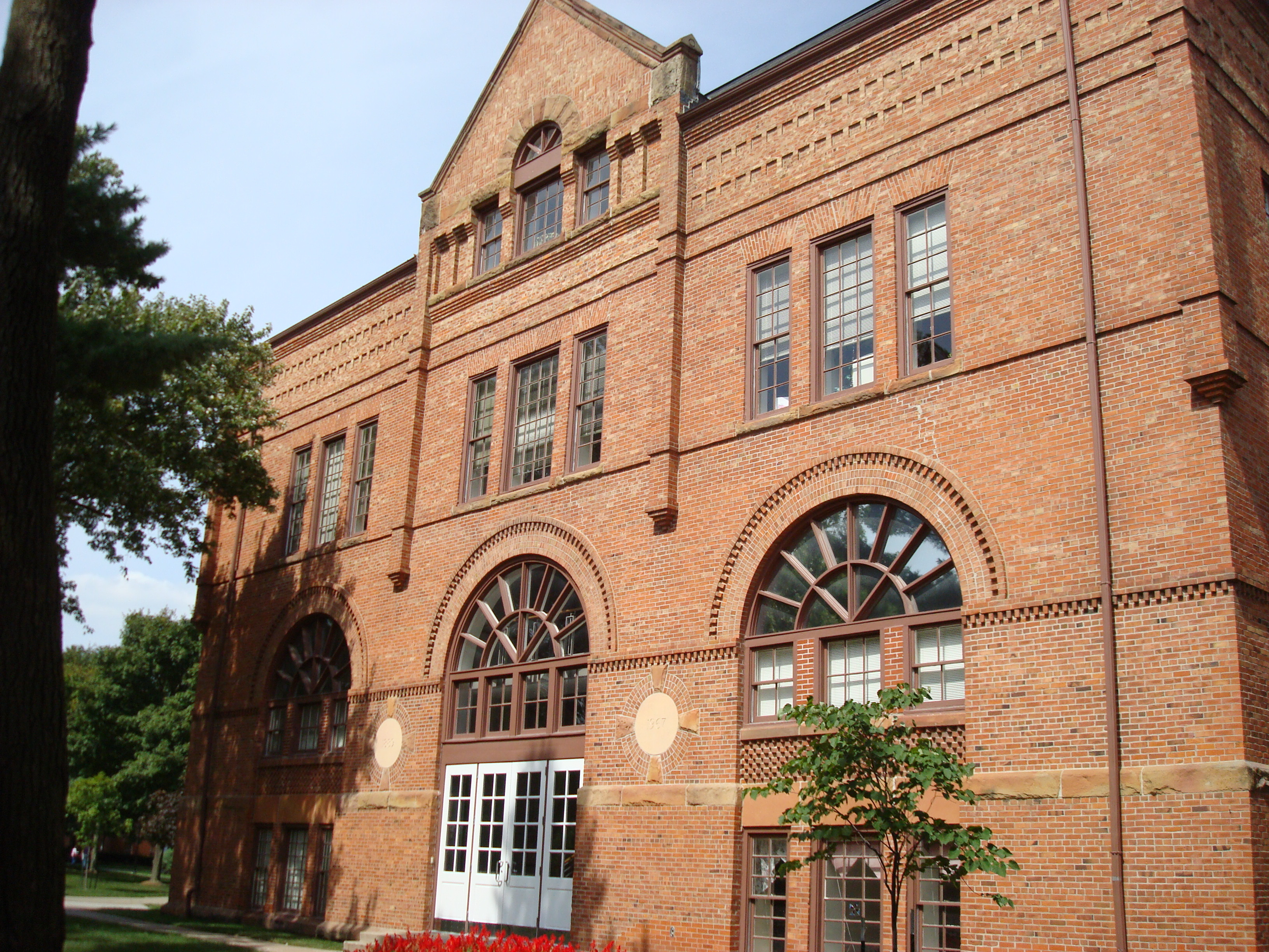 Wallace Hall (also known as Science Hall) at Simpson College in Indianola, Iowa. Placed on the US National Register of Historic Places in 1991. George Washington Carver attended his first year of college in this building before transferring to Iowa State College (now University).